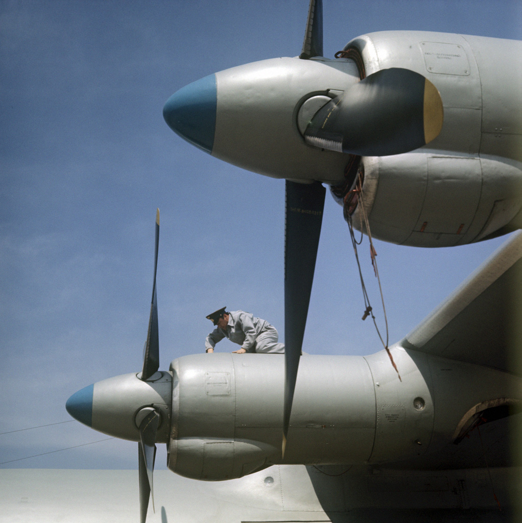 “An-12 transport readied for flight”. An Antonov An-12 transport aircraft being readied for a flight.